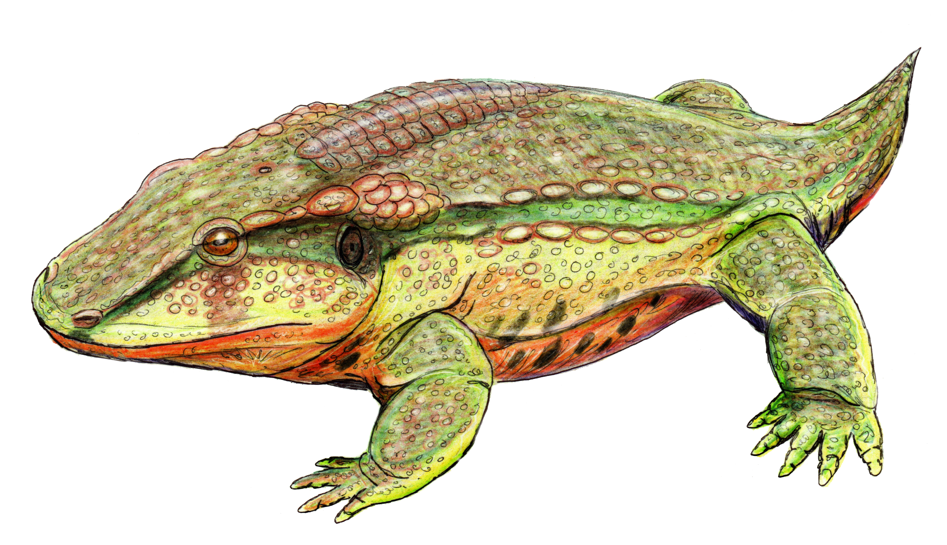 Restoration of Anakamacops petrolicus, large dissorophid from Middle Permian of China